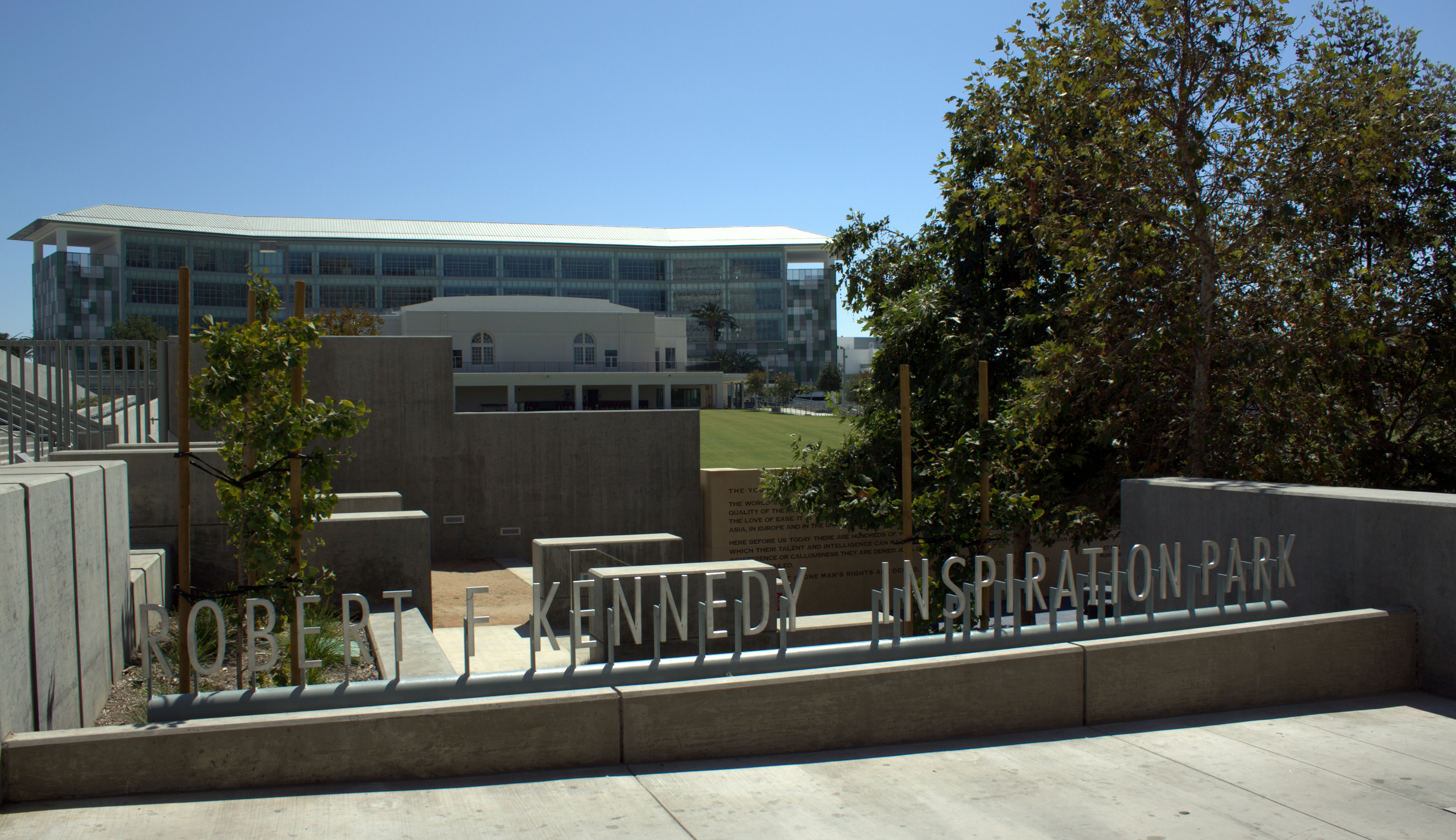 School from the Wilshire pocket park, with the park lettering.